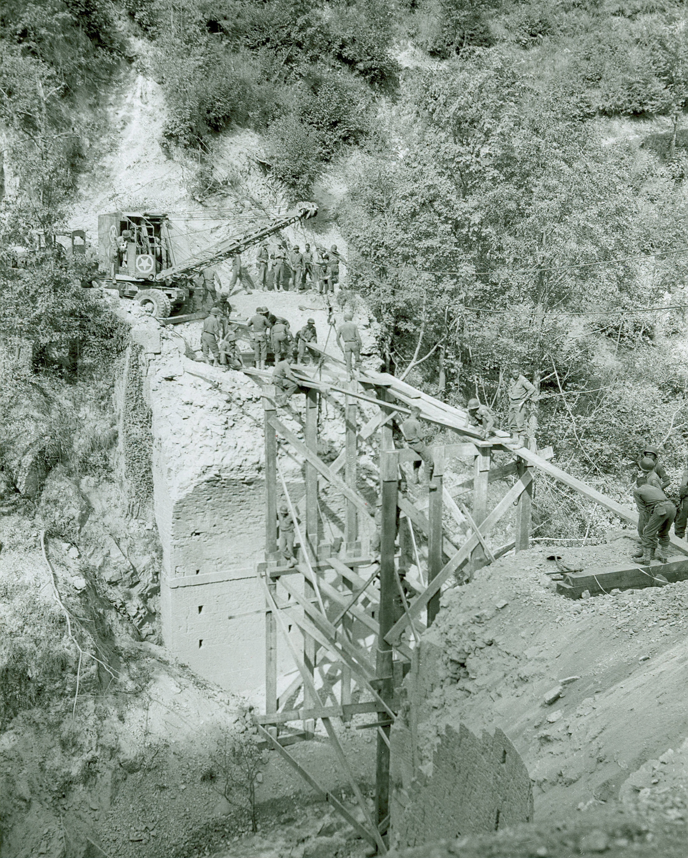 Members of the 10th Engineer Battalion, 3rd Infantry Division build a bridge across the remains of original bridge destroyed by the retreating German Army during operations near Acerno, Italy.